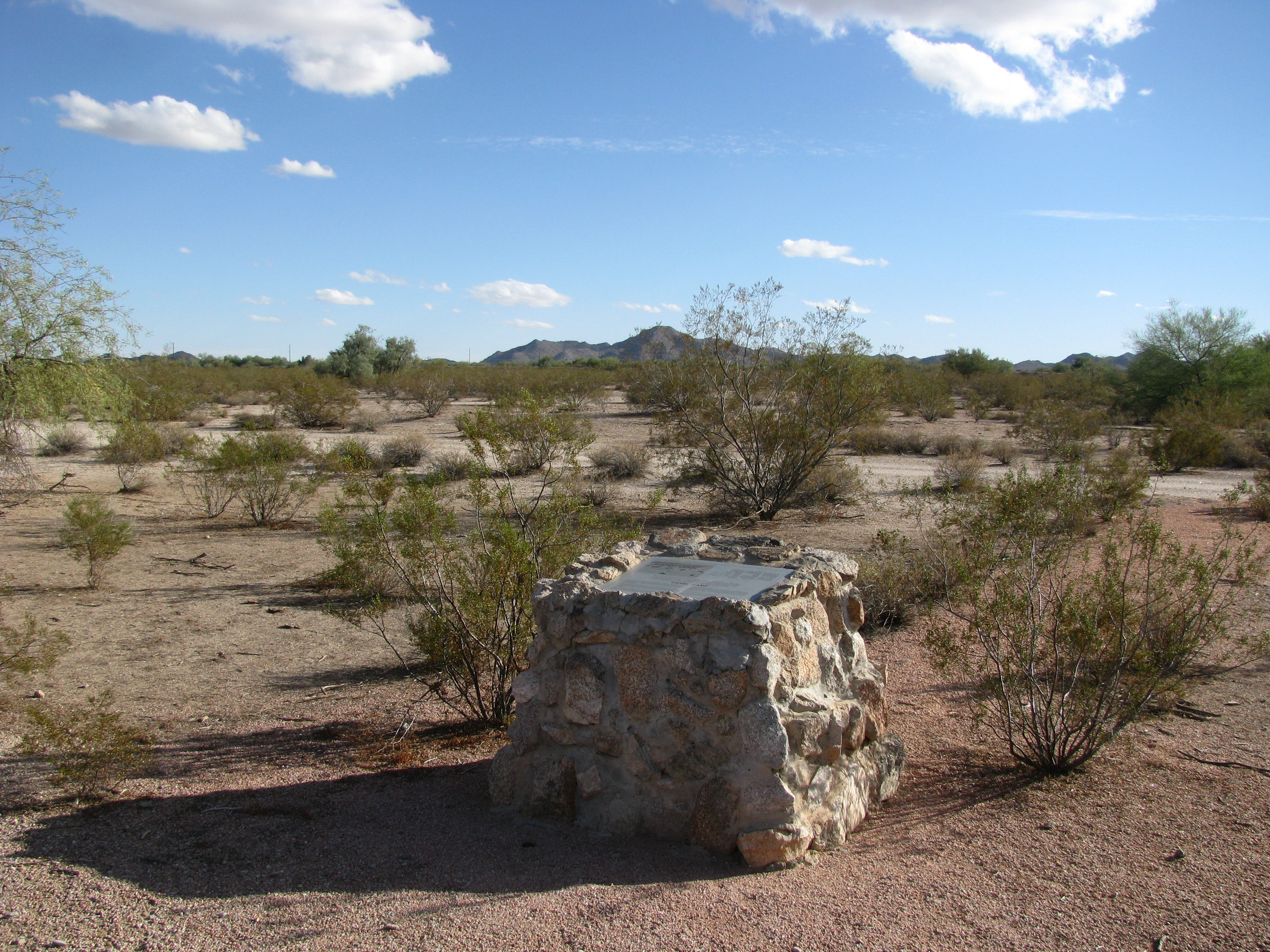 Gila River Internment Center Canal Camp Monument